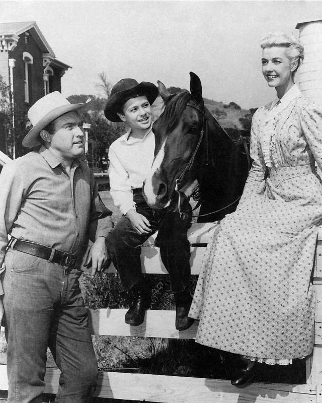 Publicity photo of Gene Evans, Johnny Washbrook, Flicka, and Anita Louise from My Friend Flicka, 1957.